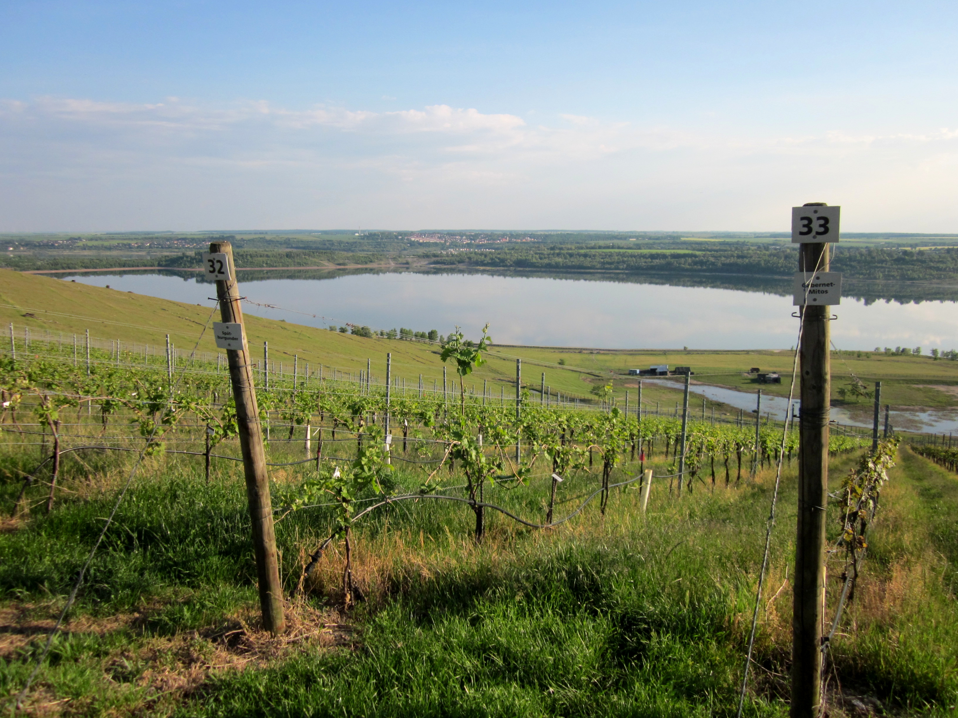 Vineyard at Geiseltal Lake (district: Saalekreis, Saxony-Anhalt)